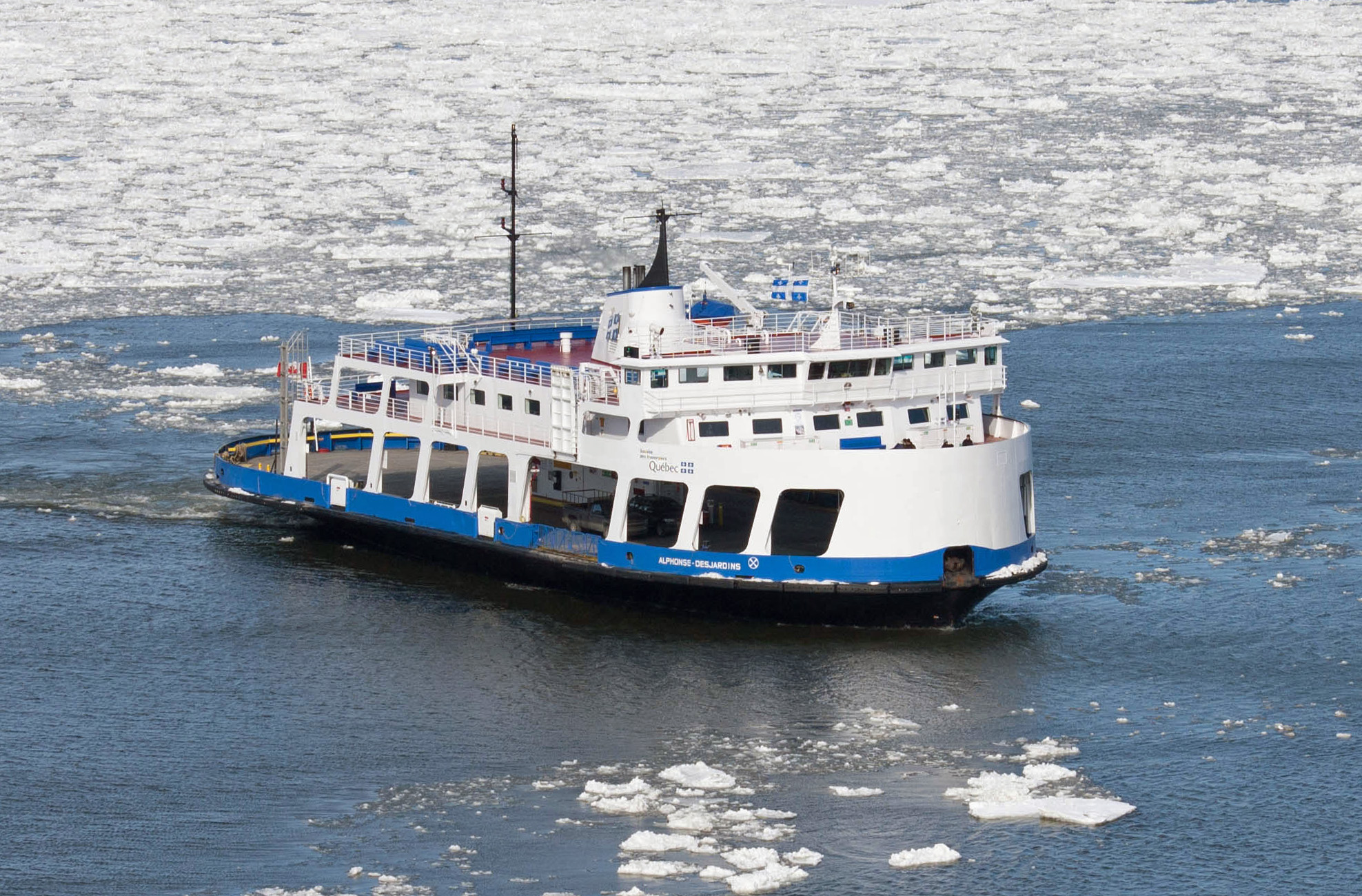 The ferry Alphonse-Desjardins in winter on the Saint Lawrence River between Quebec City and Lévis, Canada